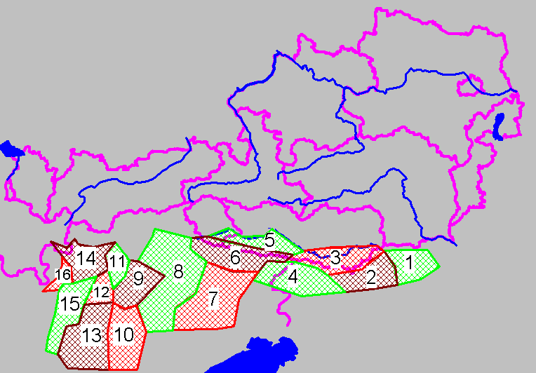 Map of the Southern Limestone Alps. Beschreibung: Gebirgsgruppen der Südlichen Kalkalpen Quelle: eigene Skizze, 29.06.2004 Autor: Robert